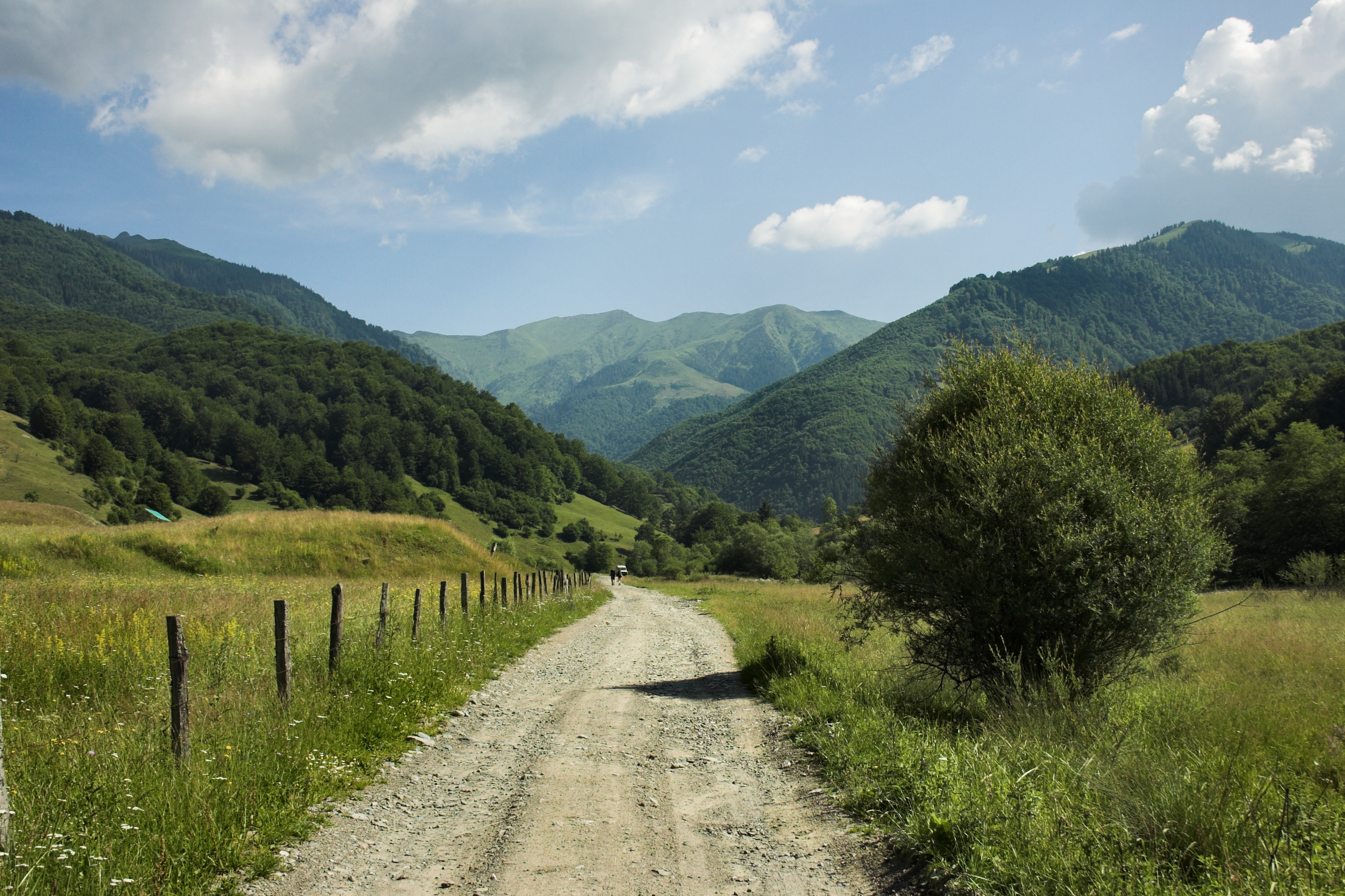 Valley under Pop Ivan in Maramureş Mountains, Romania. Near Crasna Viselui commune.